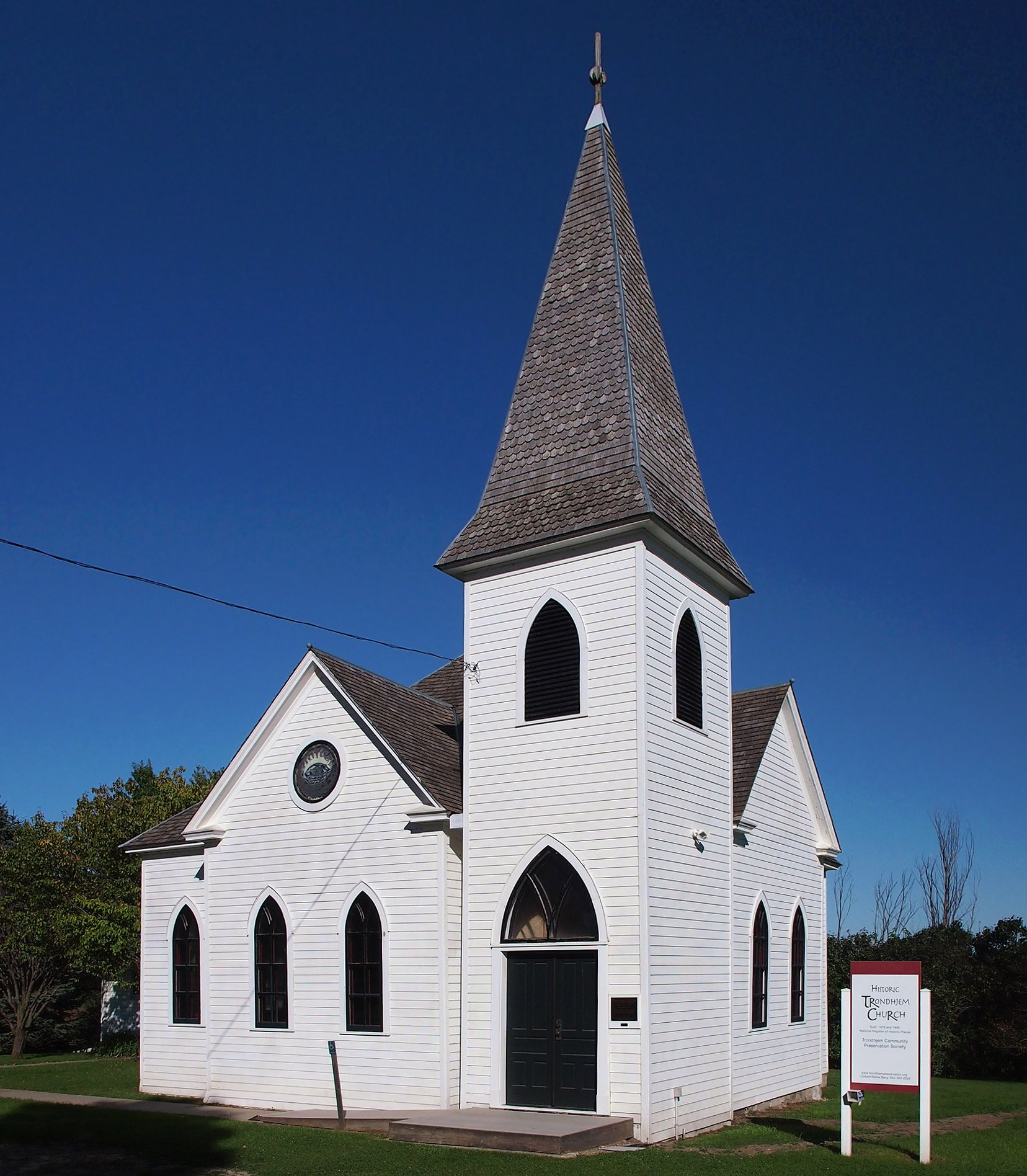 Trondhjem Norwegian Lutheran Church, 8501 Garfield Ave, Webster Township, Minnesota, USA. Viewed from the west-southwest.